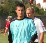 zrinjski goalkeeper hadžić